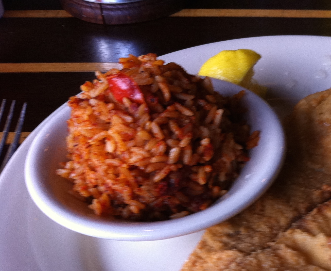 Tagged with "charleston", "mount pleasant", "south carolina", "flounder", "carolina red rice", "hush puppy", "hush puppies", and "southern food".